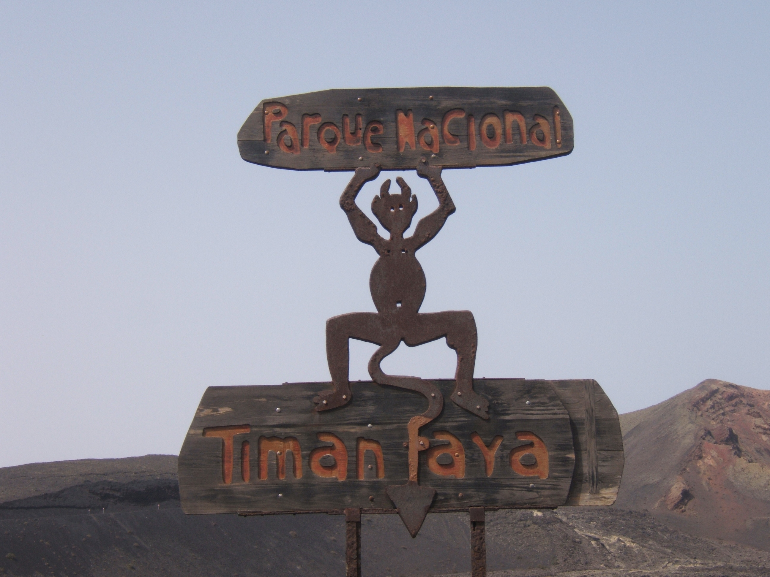 El Diablo - a symbol of Timanfaya Park - created by Cesar Manrique